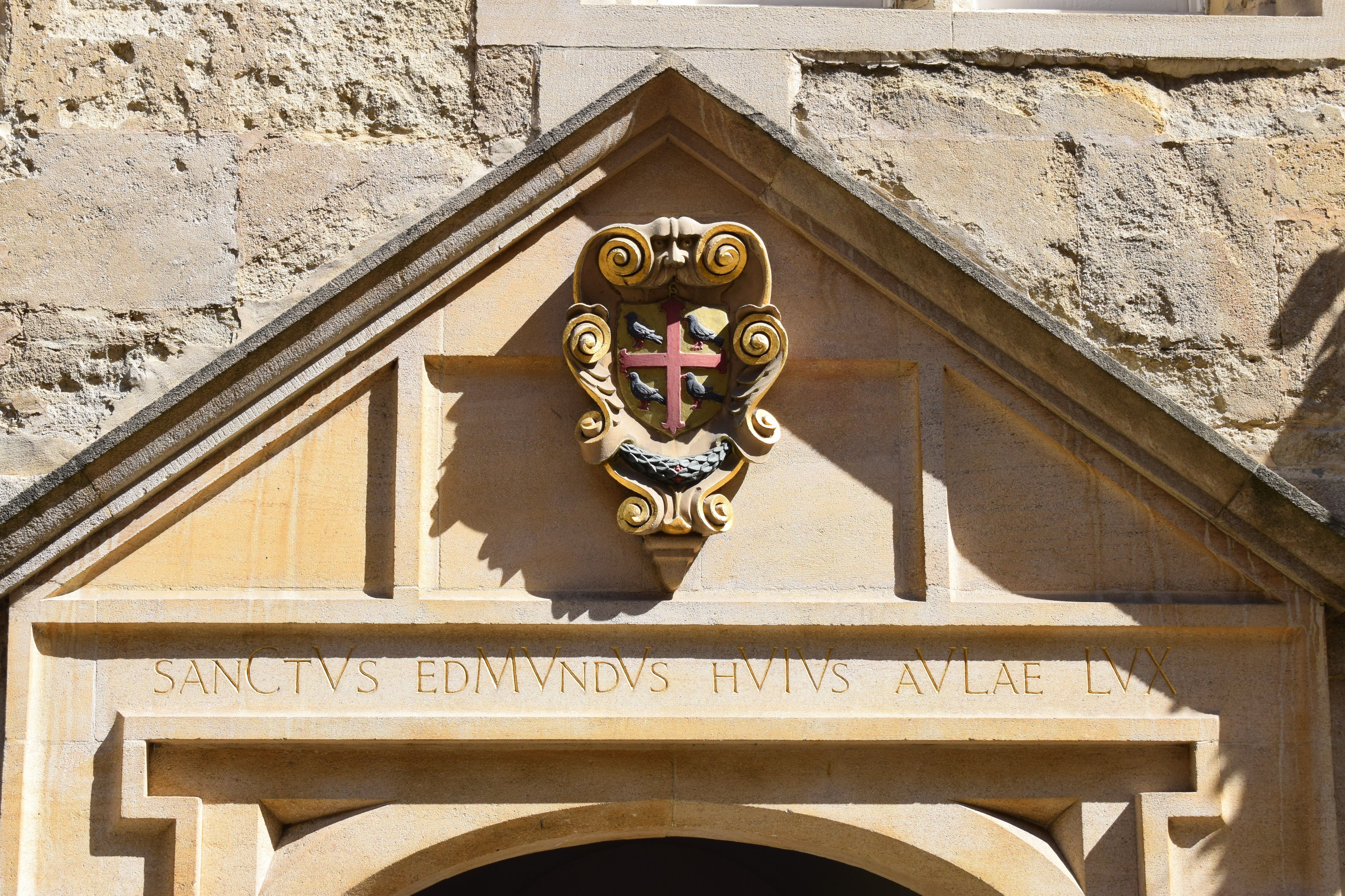 Detail of the Coat of Arms and Inscription above the entrance to the Porters' Lodge, St Edmund Hall, Queen's Lane, Oxford